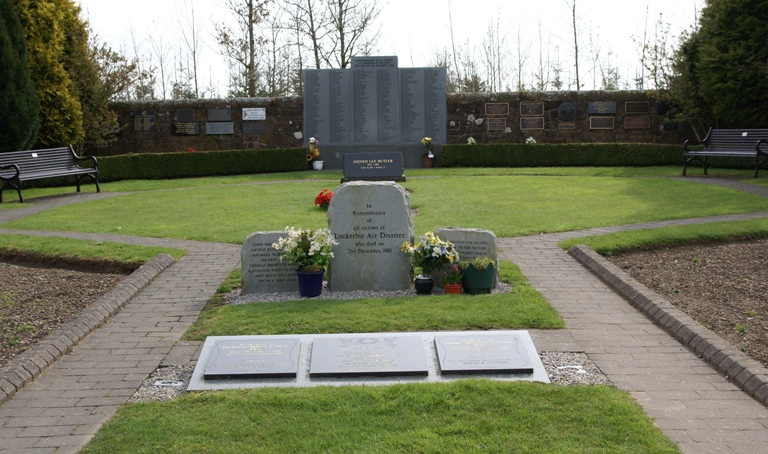 Garden of Remembrance, Lockerbie, Scotland (Lockerbie Air Disaster)